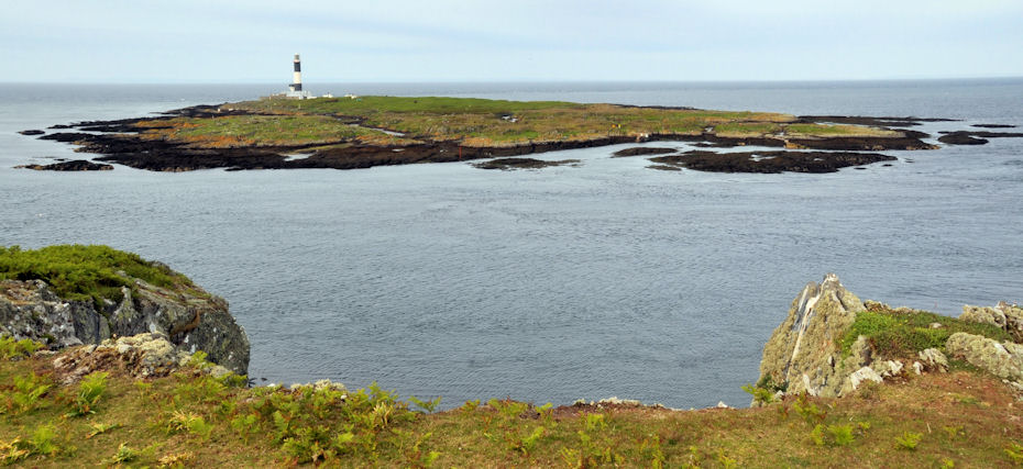 Mew Island, Copeland Islands near Donaghadee